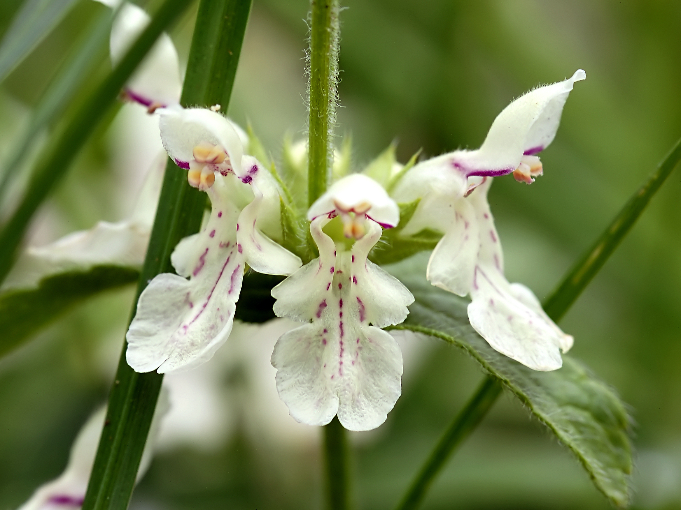 Stachys annua (L.) L. (1763) - Annual Hedgenettle close to Pleuville, Charente, France